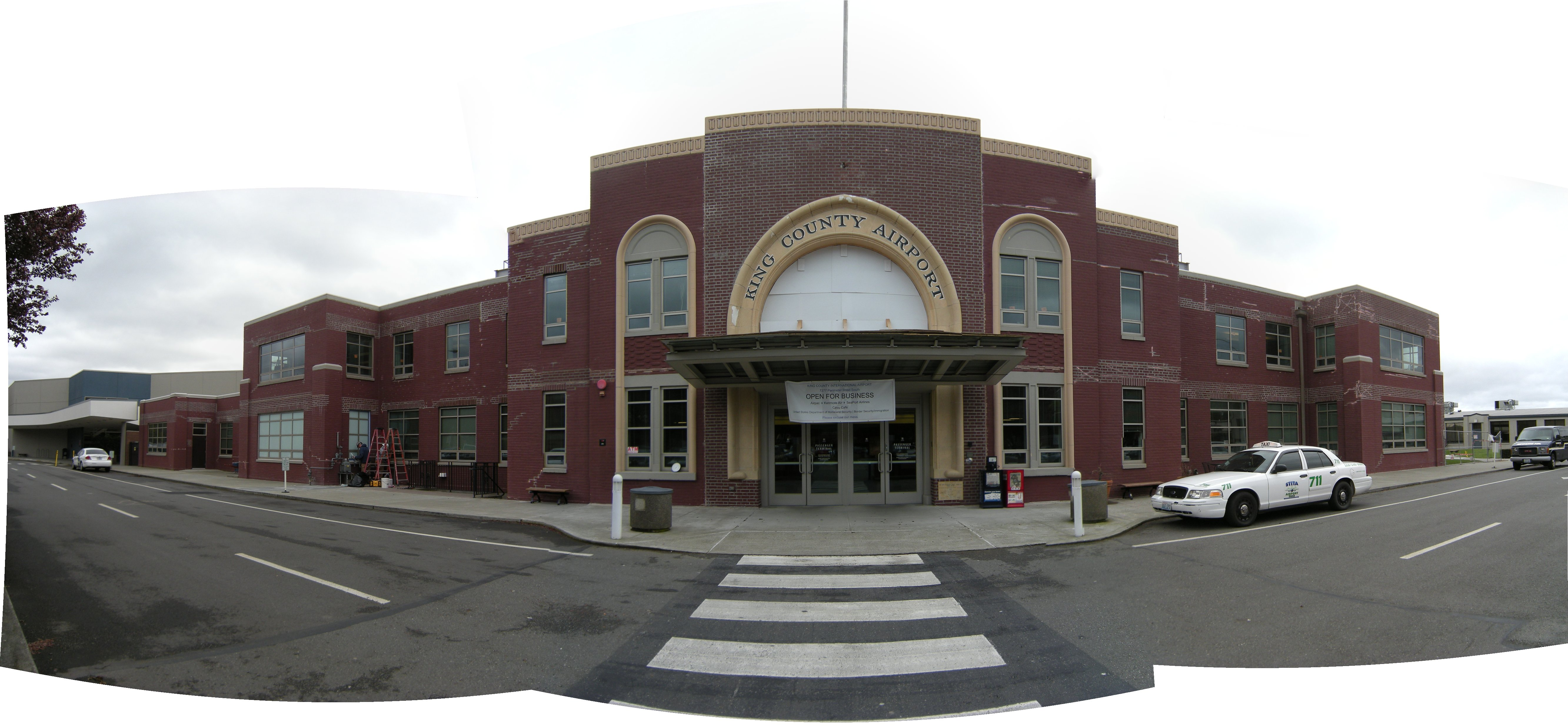 Panoramic view of passenger terminal, Boeing Field. This image was created with Hugin